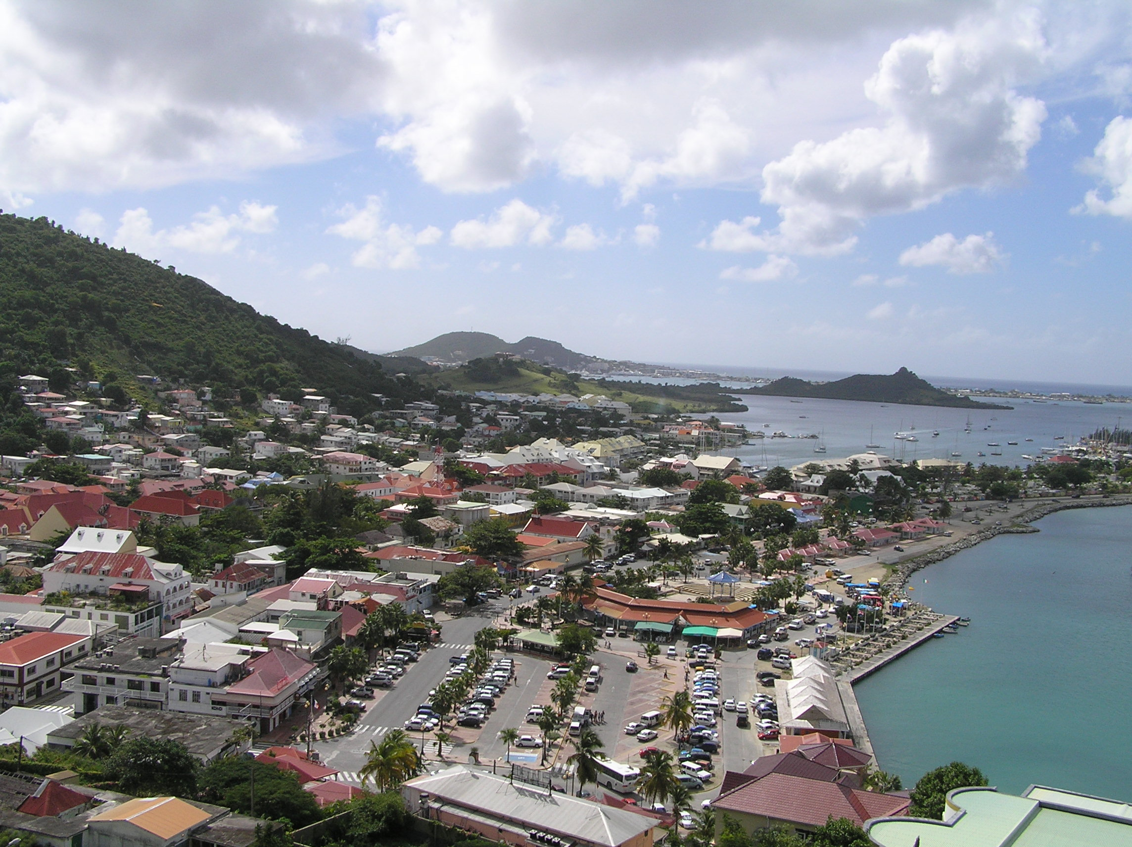 Marigot, St. Martin from . Photographer allow to use it under GFDL